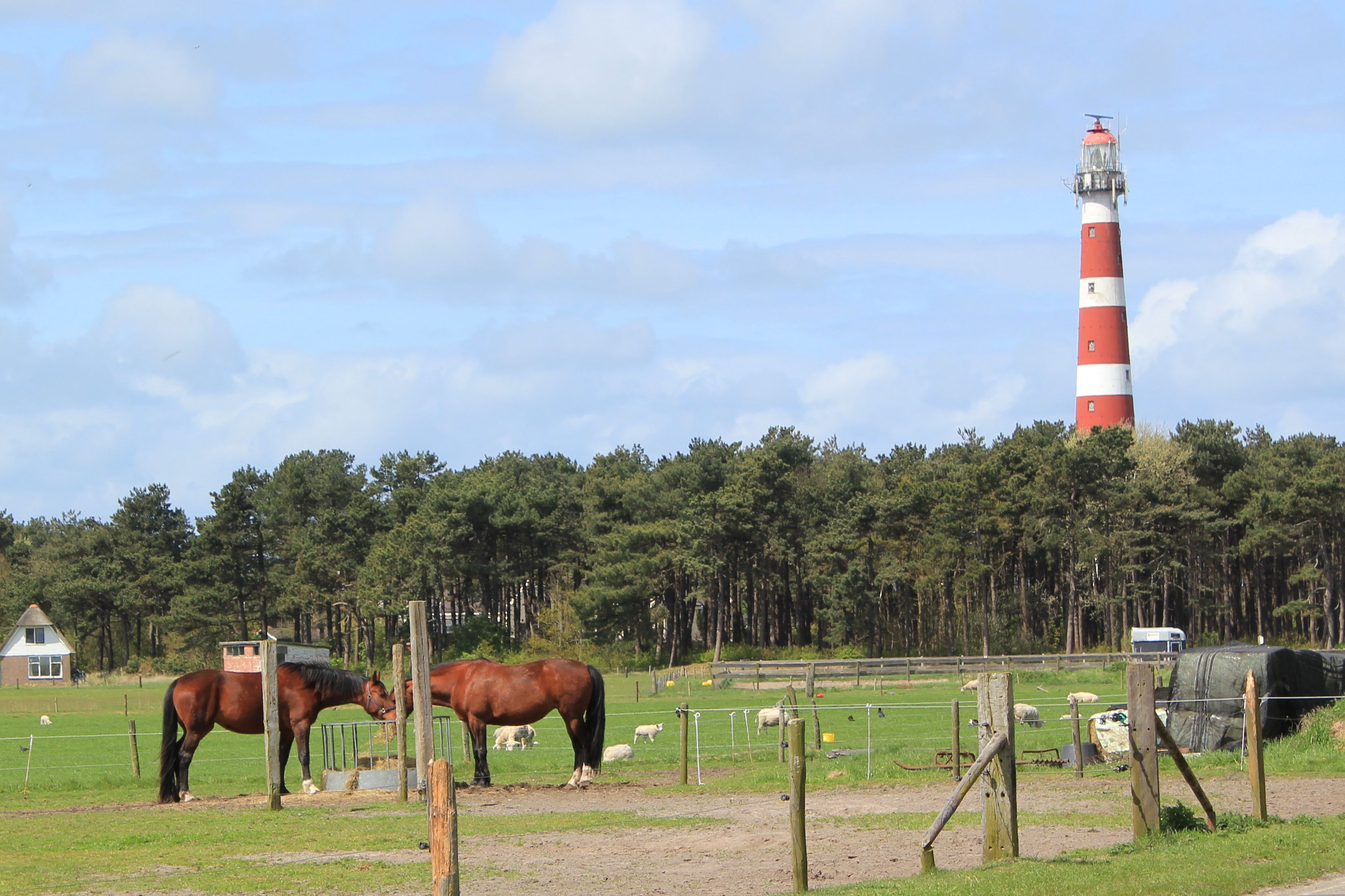 Ameland